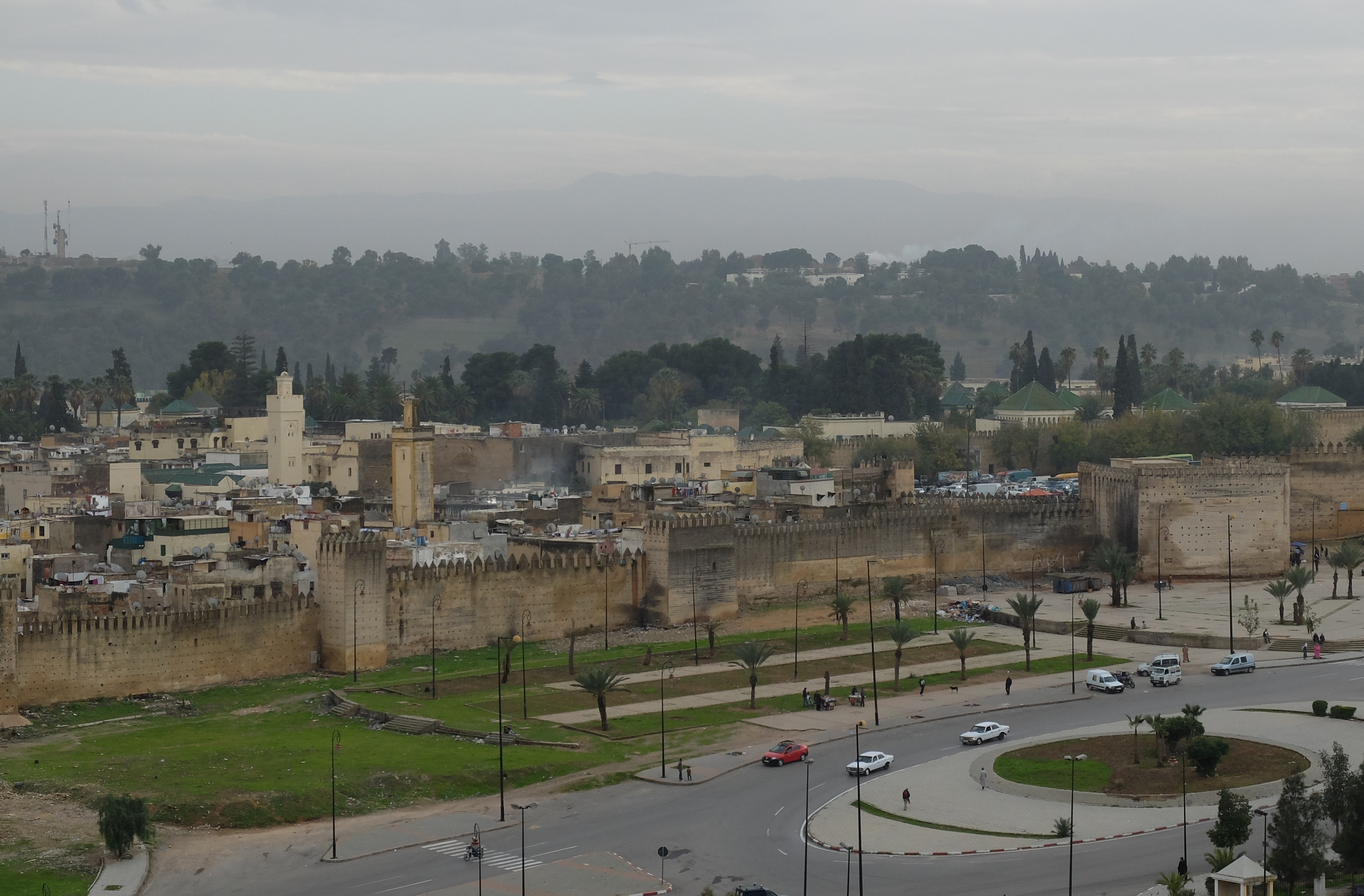 Bou Jeloud area (left), Kasbah An-Nouar quarter (center), and Bab Mahrouk (large rectangular bastion on the right), seen from Borj Nord in Fes.